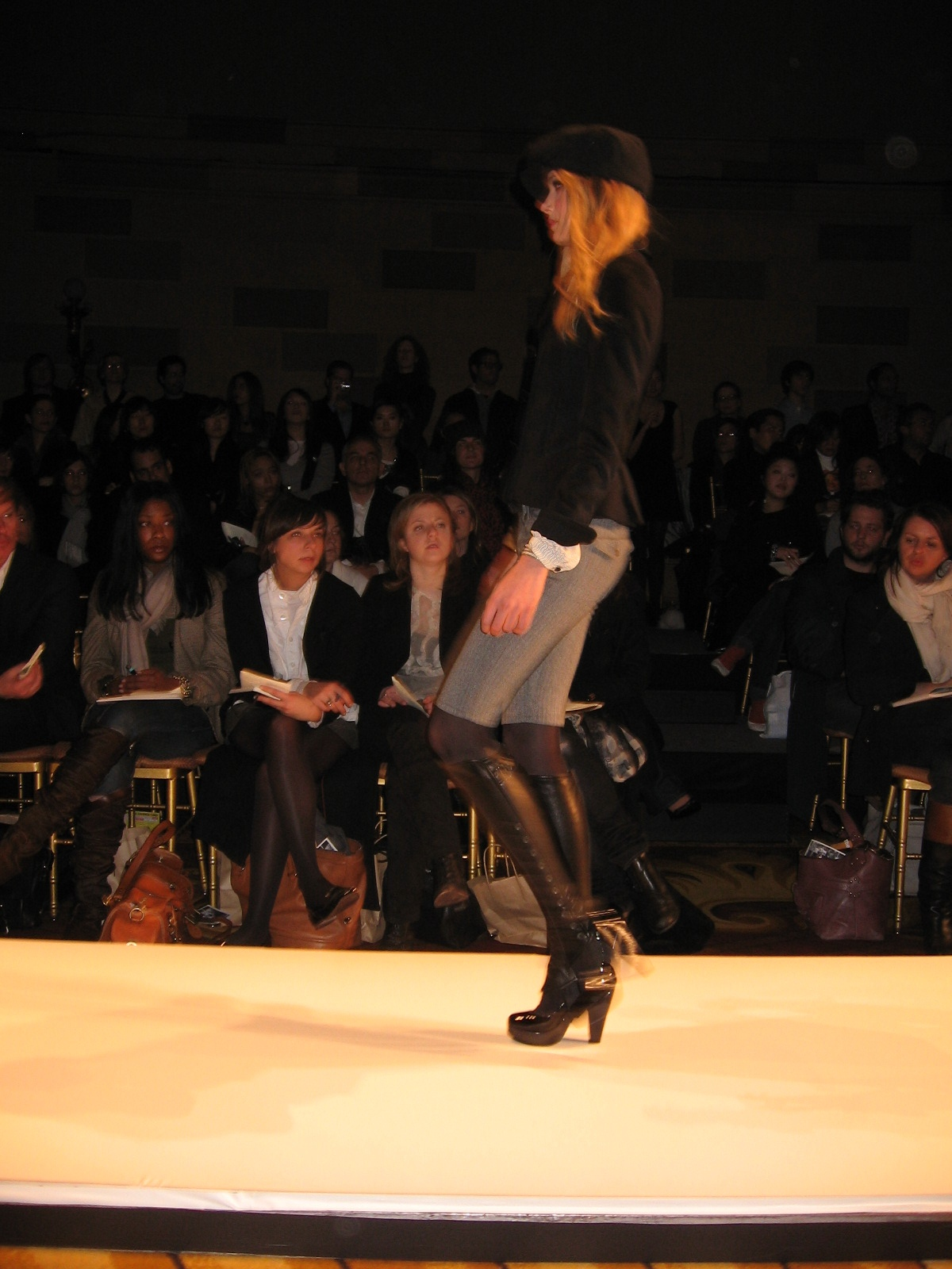 Lily Donaldson modeling for Rag & Bone, Fall 2007 New York Fashion Week.